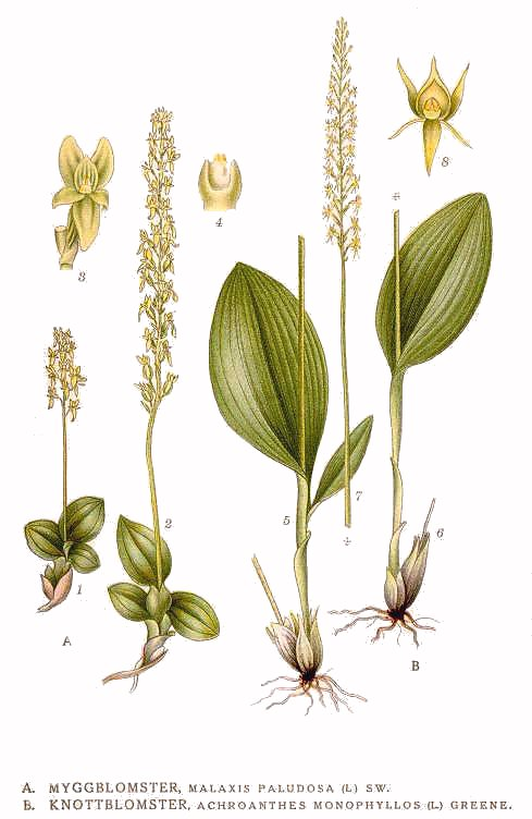 A. Hammarbya paludosa (L.) Kuntze, syn. Malaxis paludosa (L.) Sw. B. Microstylis monophyllos (L.) Lindley, syn. Achroanthes monophyllos (L.) Greene Original Description A. Myggblomster, Malaxis paludosa (L.) Sw. B. Knottblomster, Achroanthes monophyllos (L.) Greene.